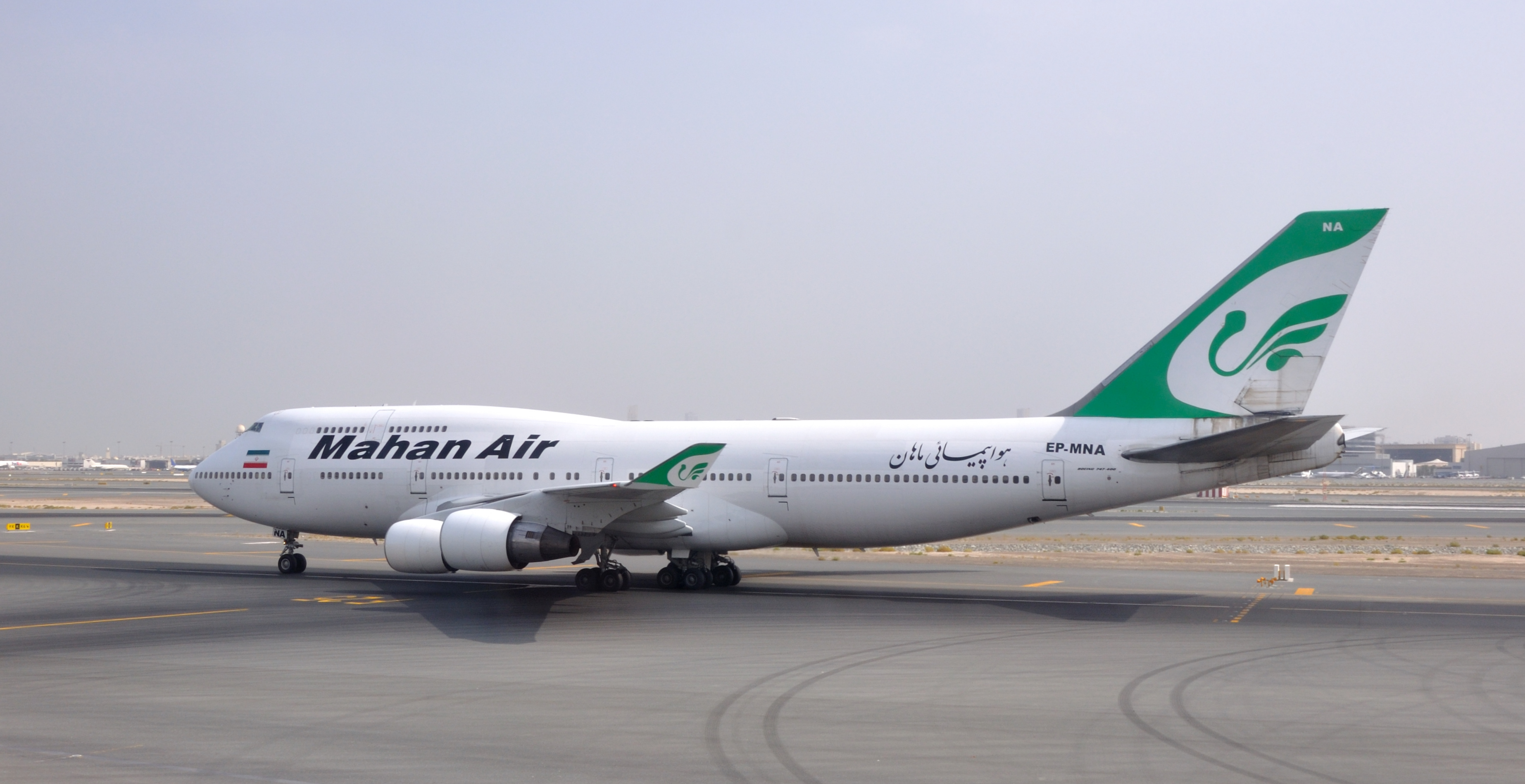 United Arab Emirates, Just landed: A B747-400 of Iranian Mahan Air taxiing to its parking position.